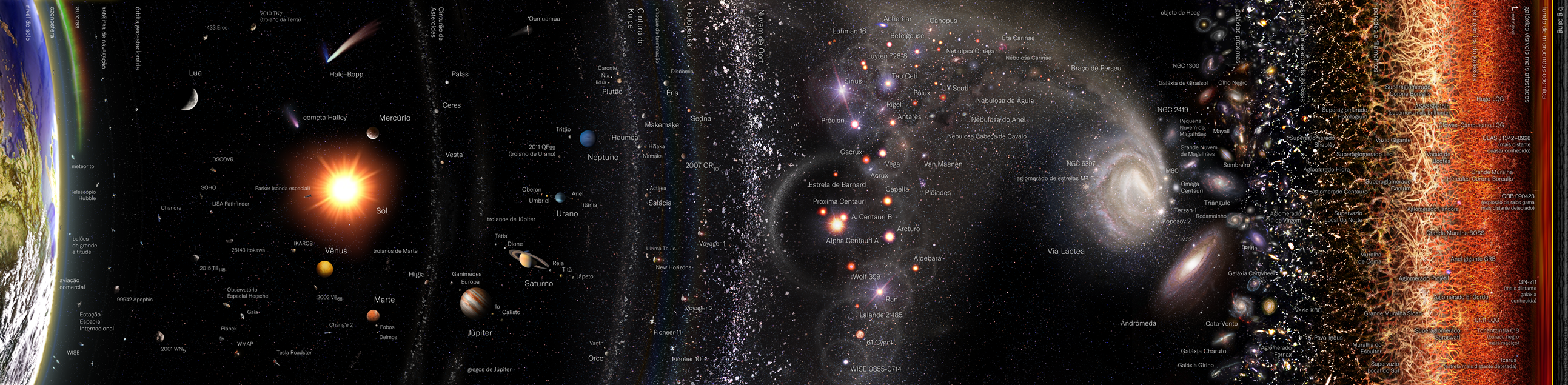 Map of the observable universe. From left to right the known celestial bodies are arranged according to their proximity to the Earth. In the right border we find the most distant objects observed that are GRBs, quasars, galaxies and the cosmic microwave background radiation.